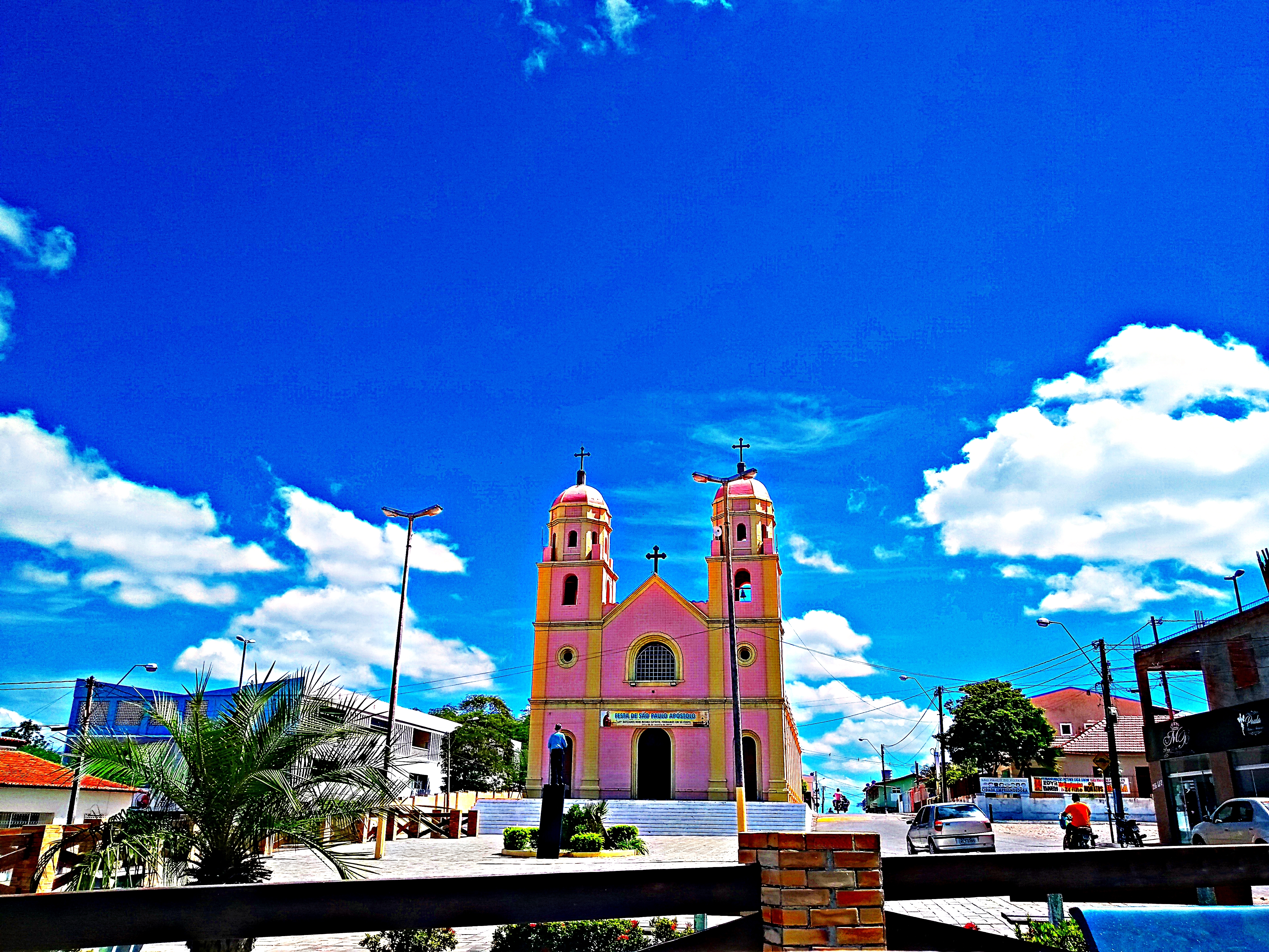 Partial view of Monsenhor Square Expedito with the Mother Church.